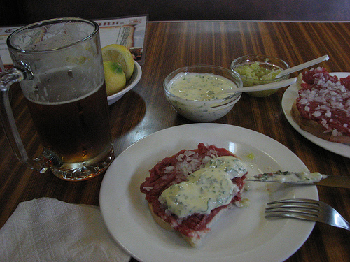 Chilean Crudos